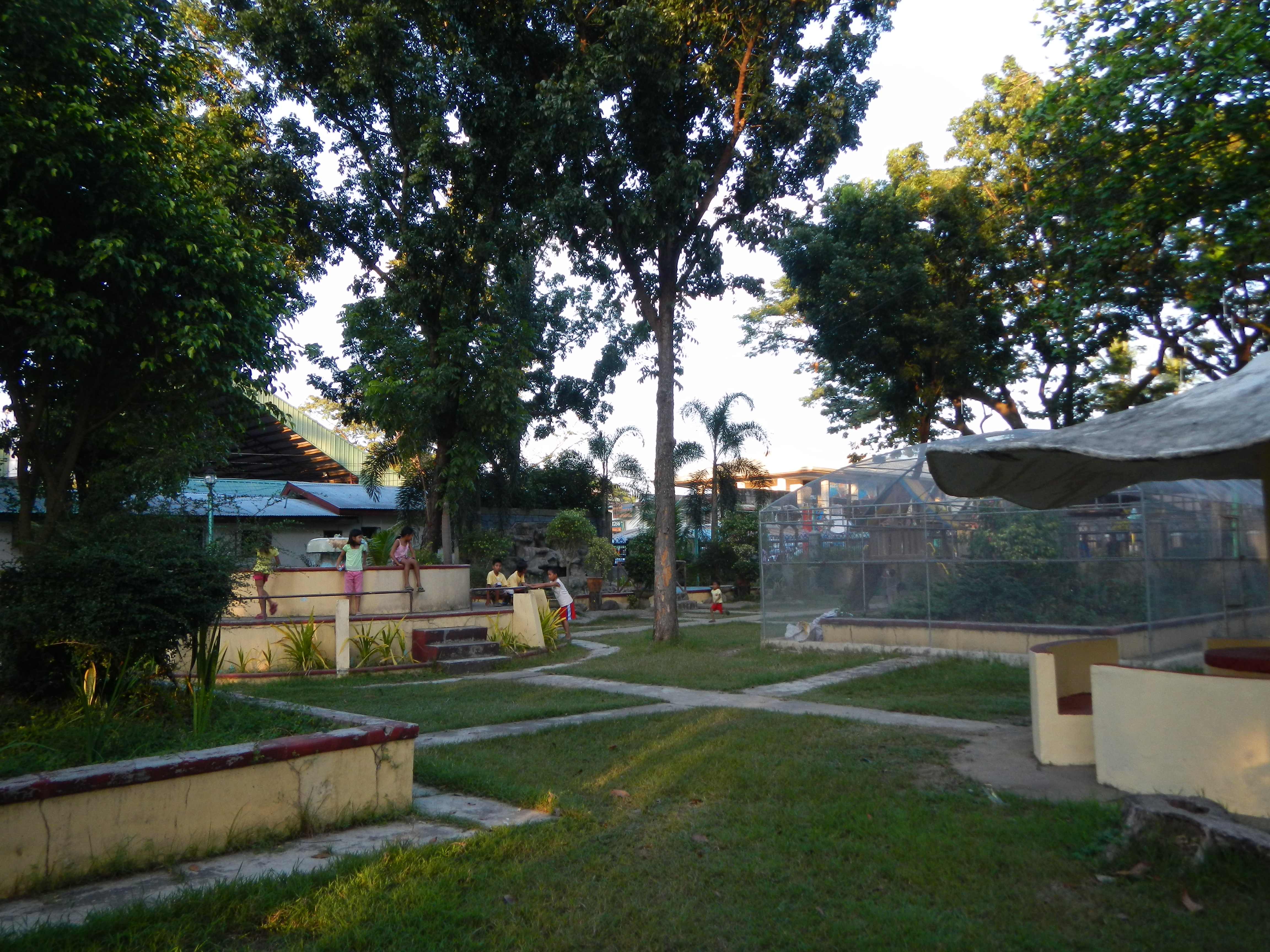 San Manuel, Pangasinan[1][2][3][4]